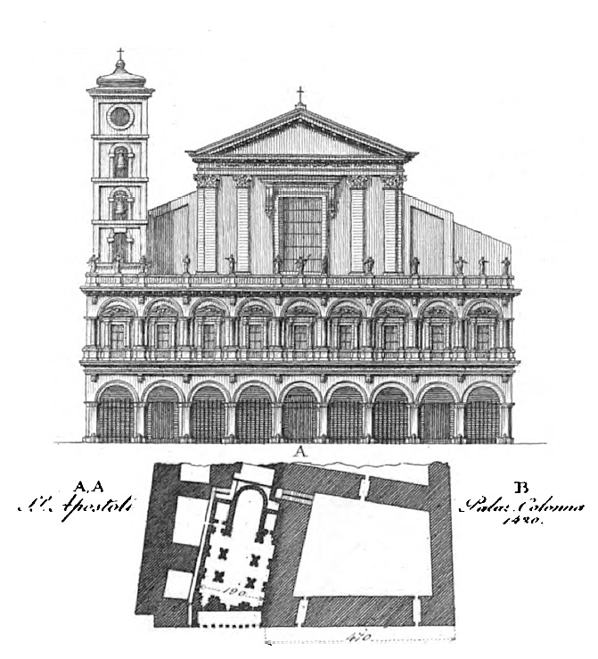 engraving of façade and of plan